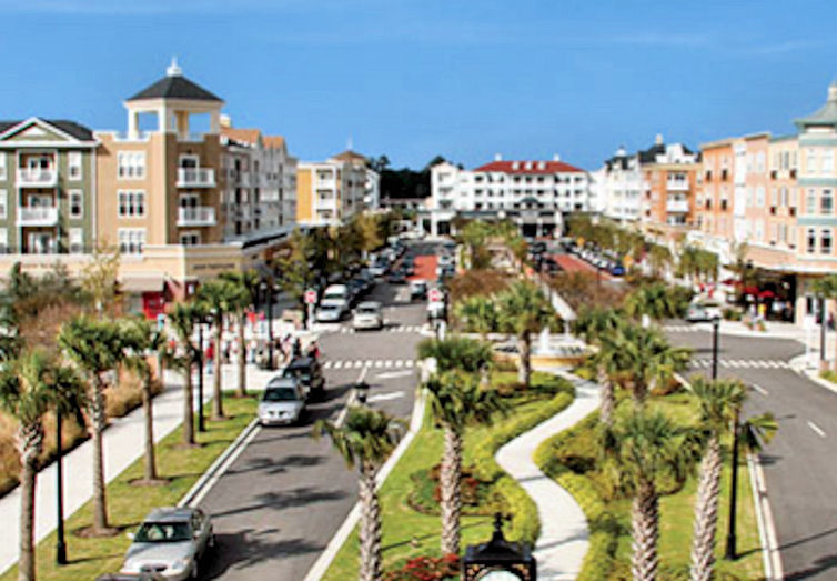 Market Common development at the former Myrtle Beach AFB, South Carolina - Retail/Commerce area (personal scan/enhanced from postcard)